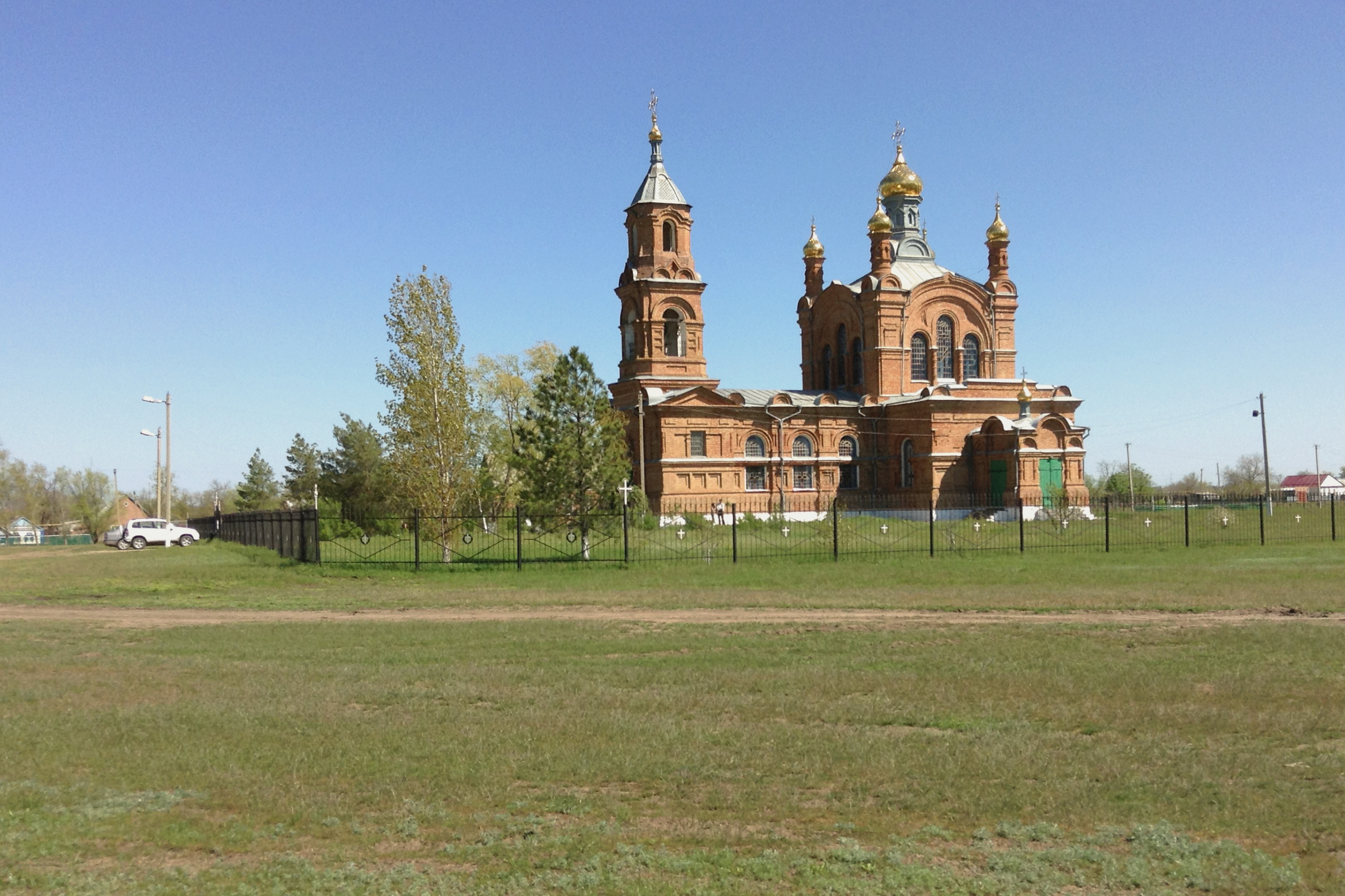 Church of st. George the Victorious in Sandata village near Salsk, Rostov-on-Don region, Russia. Built not earlier than in 1904.